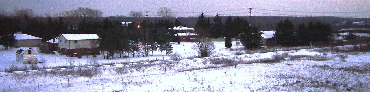 Cooks Mills as viewed from the East Main St. viaduct just east of Highway 140 intersection. The unassuming homes, large wooded areas, and interspersed empty fields are typical of the community. Originally taken at dusk, which can be seen on the original picture. The second version has tweaked brightness/contrast, so that it looks rather normal, if a bit gloomy. The thingy in the middle of the picture is not a UFO, rather the leftovers of me Photoshopping a drop of moisture out of the original picture. Taken by me, 21.12.2005.